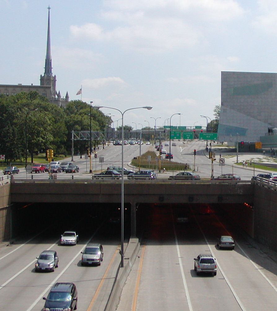 The entrance of Lowry Hill Tunnel from the north/west, below Hennepin and Lyndale Avenues. Taken by William Wesen, June 2007